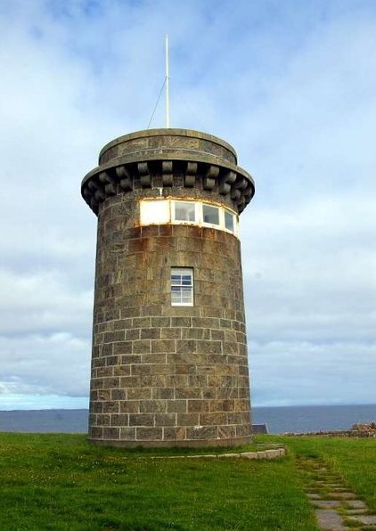 Signal tower for Skerryvore lighthouse at Hynish, Tiree, Scotland